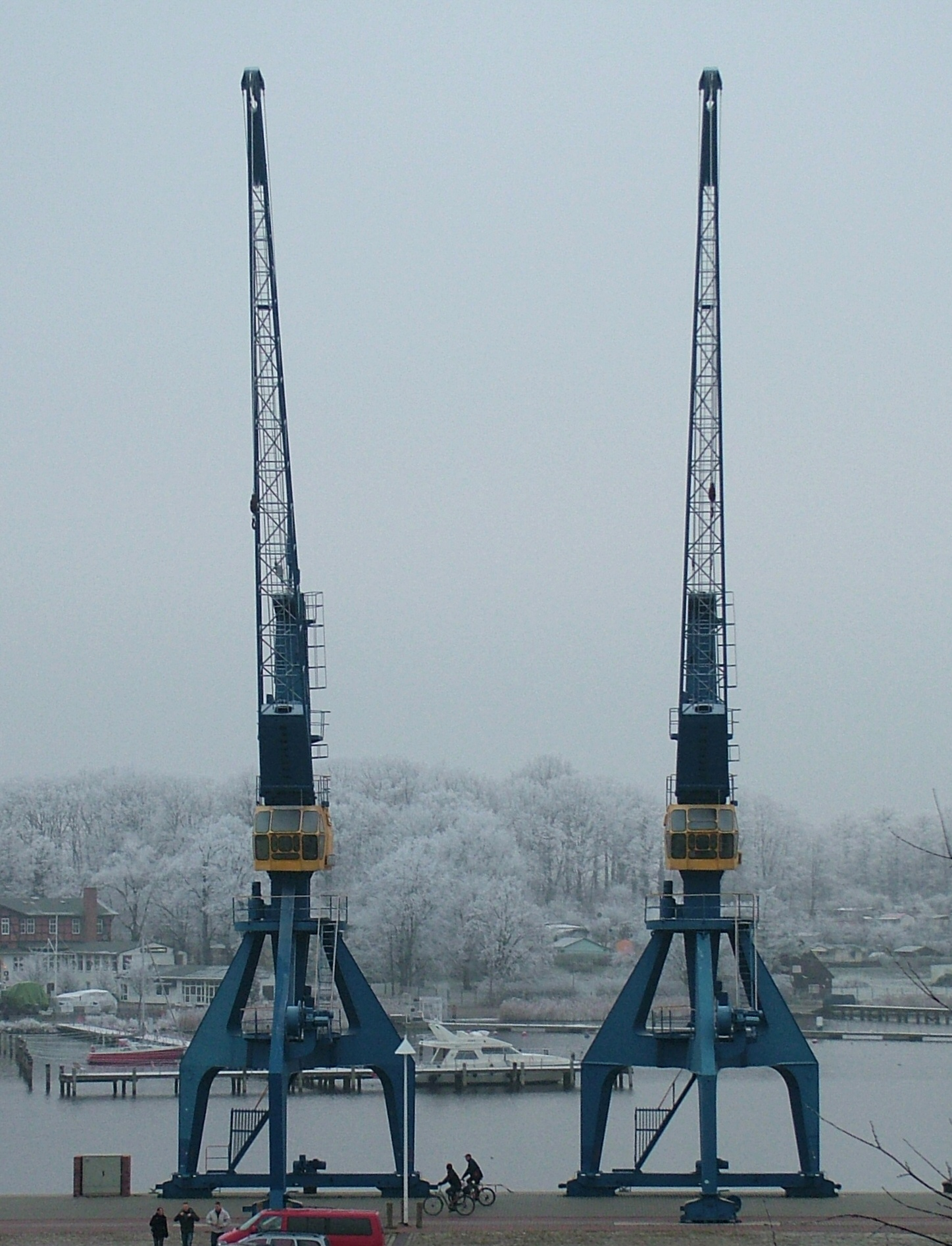 Takraf port cranes in the Stadthafen (city harbour) of Rostock.